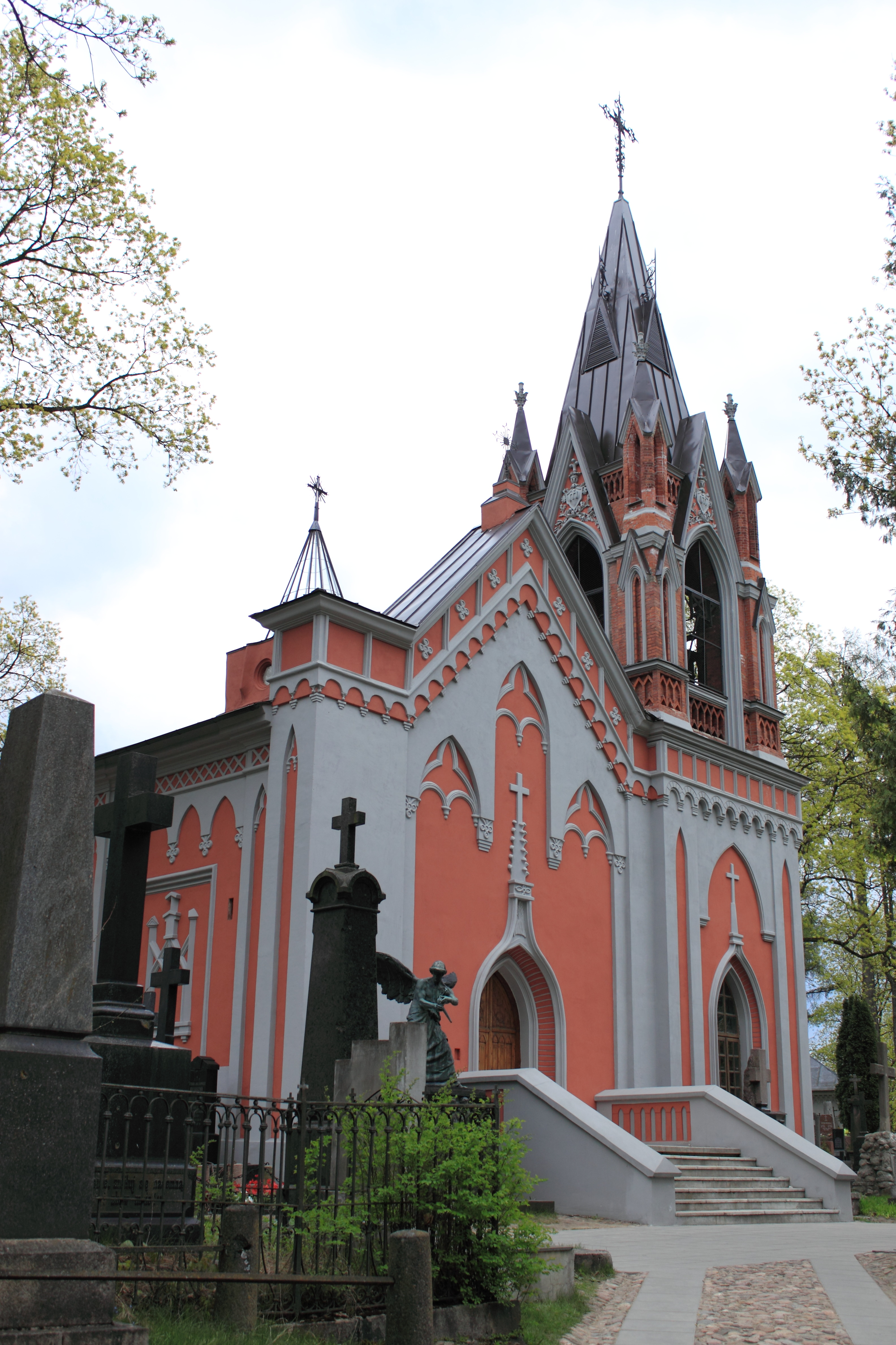 Church on Rasos Cemetery, Vilnius.